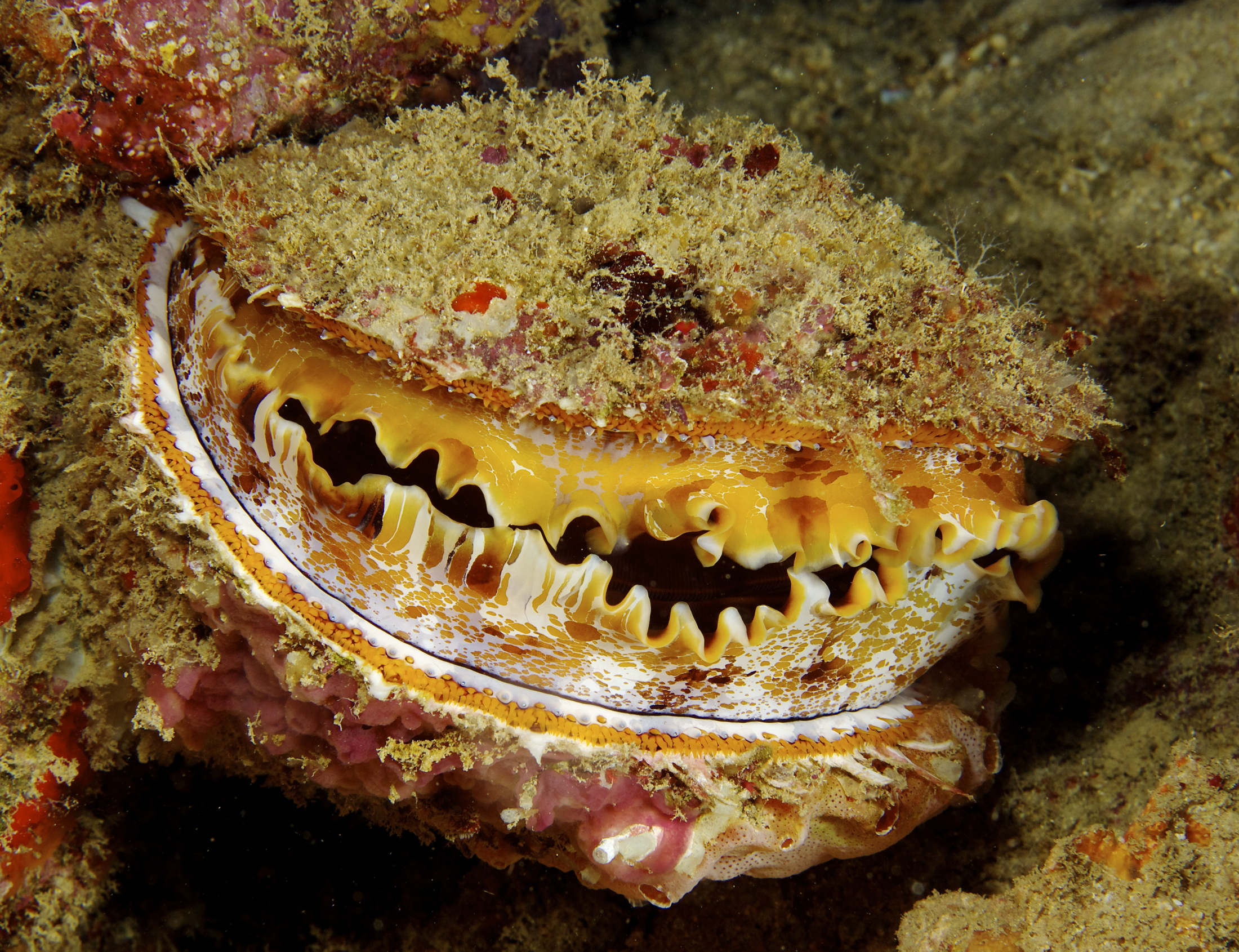 Spondylus varius Thorny Oyster